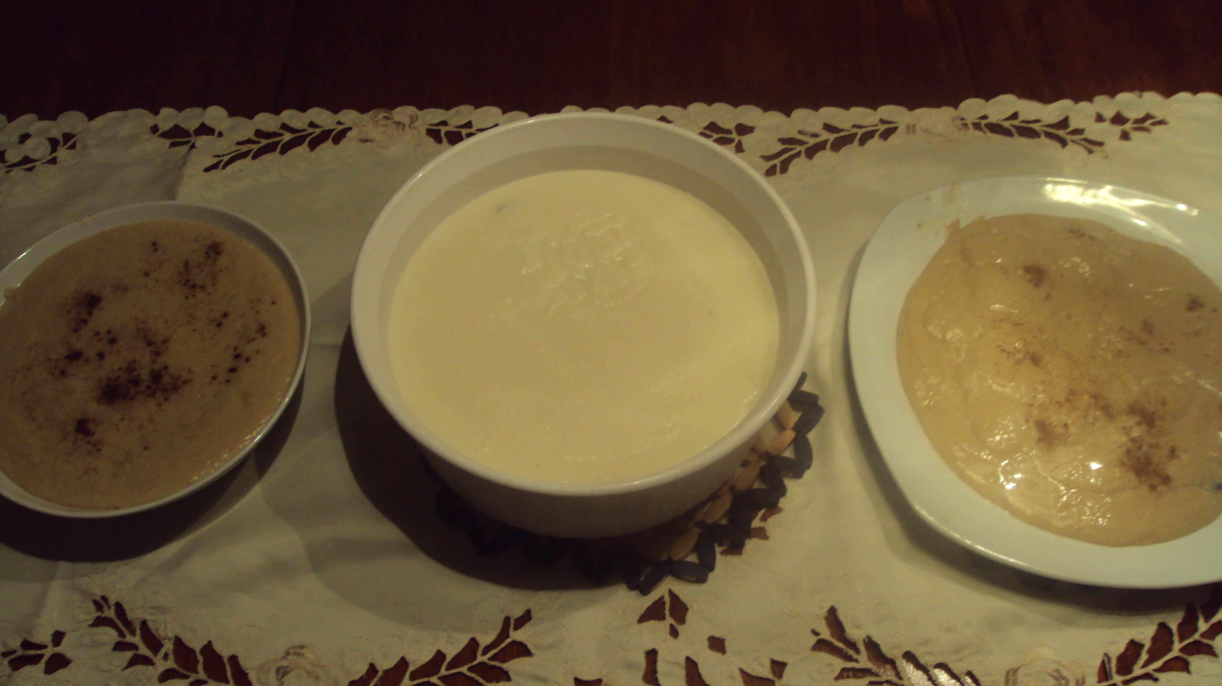 The center bowl contains Colombian "Manjar Blanco" after let to cool down to room temperature. The other two plates to the side are natillas.